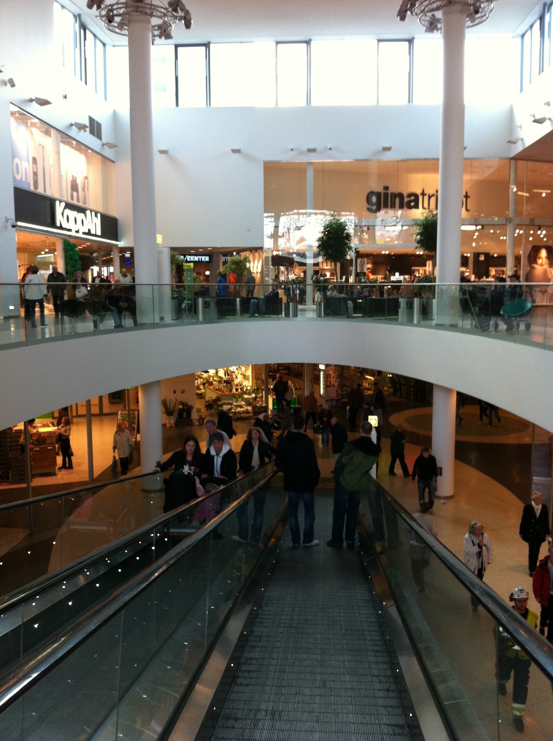 View over the "second square" of the shopping mall Frölunda torg, Gothenburg, Sweden.